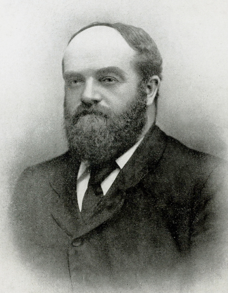 circa 1890, Thomas Horan, (1854-1916) a top batsman who played for Victoria 1874-1892 and Australia 1876-1885